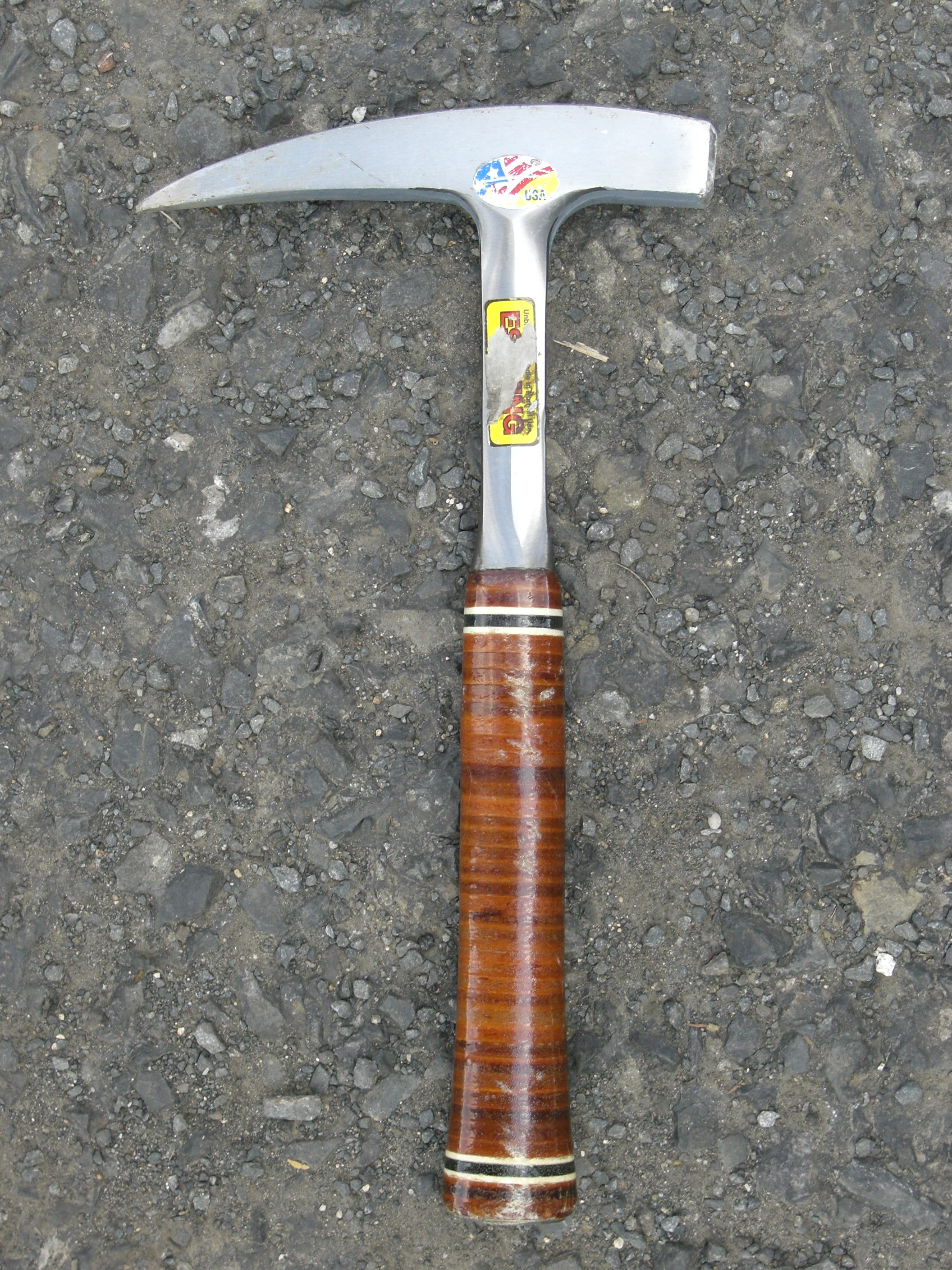 Geological hammer. With premission of Zuzka.